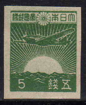 Japanese stamp of 5sen. Plane of Hiei.